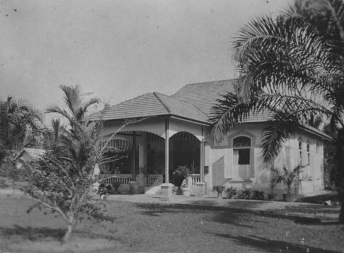 House, Pematangsiantar